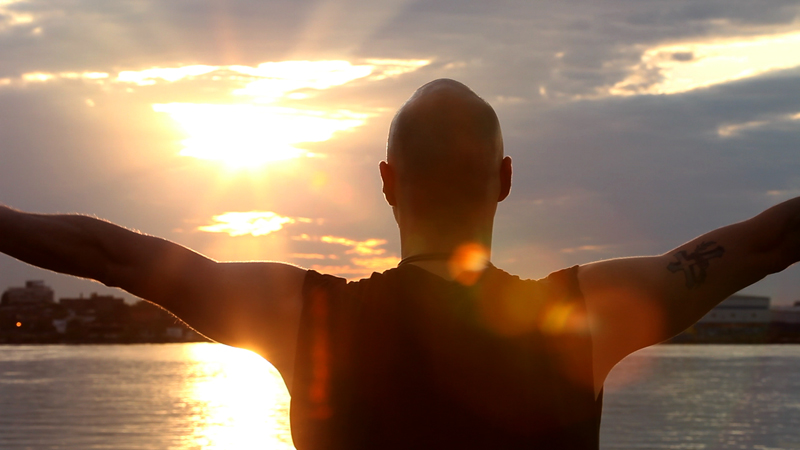 Photo of man Sungazing during sunrise. East River, Downtown New York City. Sungazing is a meditative practice that involves staring directly at the Sun for short periods of time during sunrise or sunset.